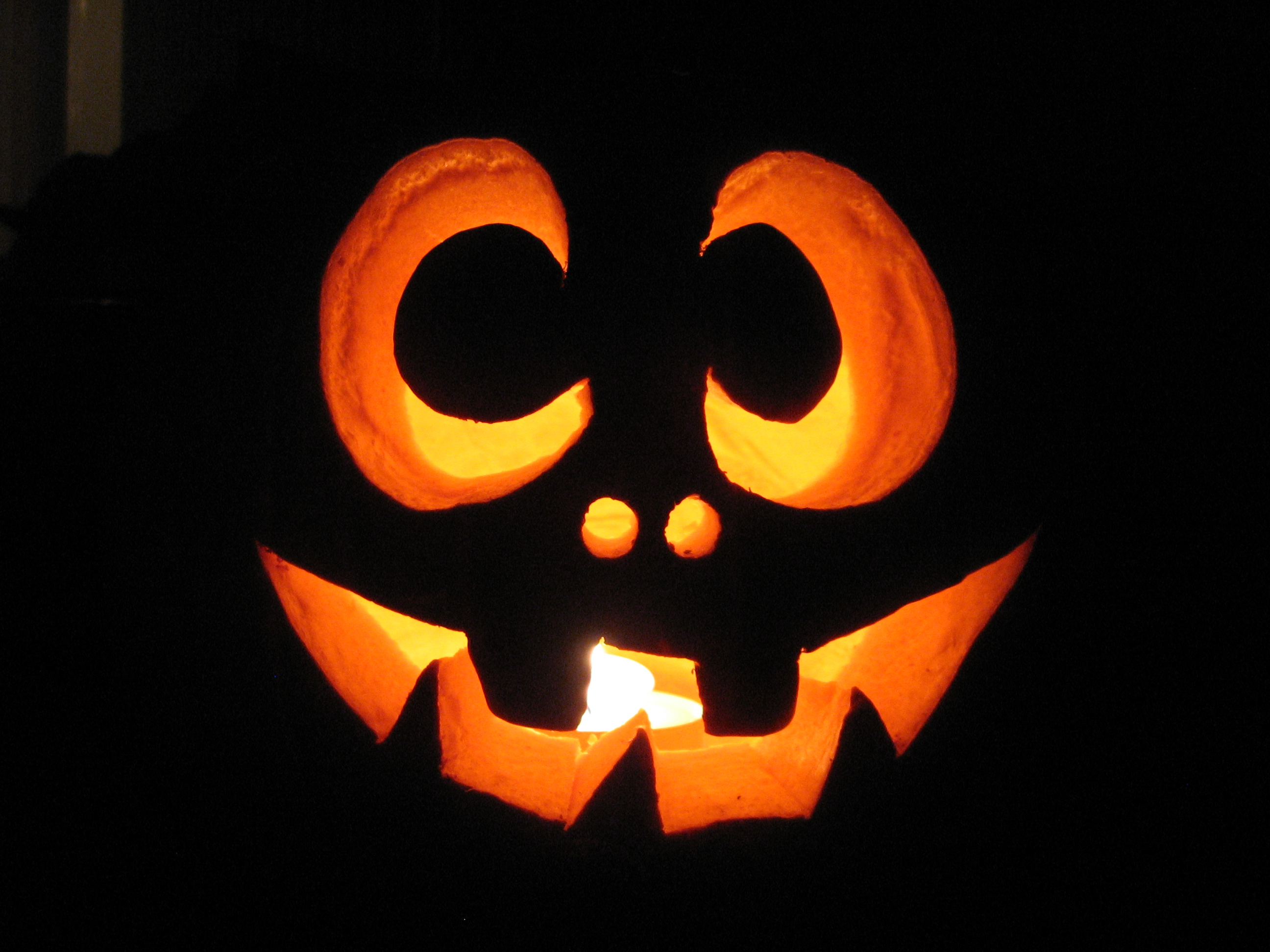 Friendly pumpkin